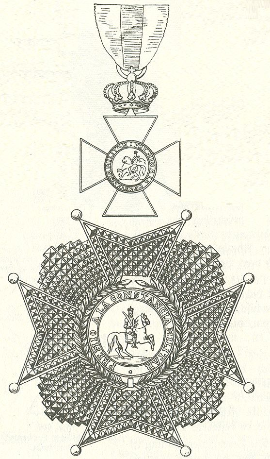 Illustration of the medal and badge of the Royal and Military Order of Saint Hermenegild.